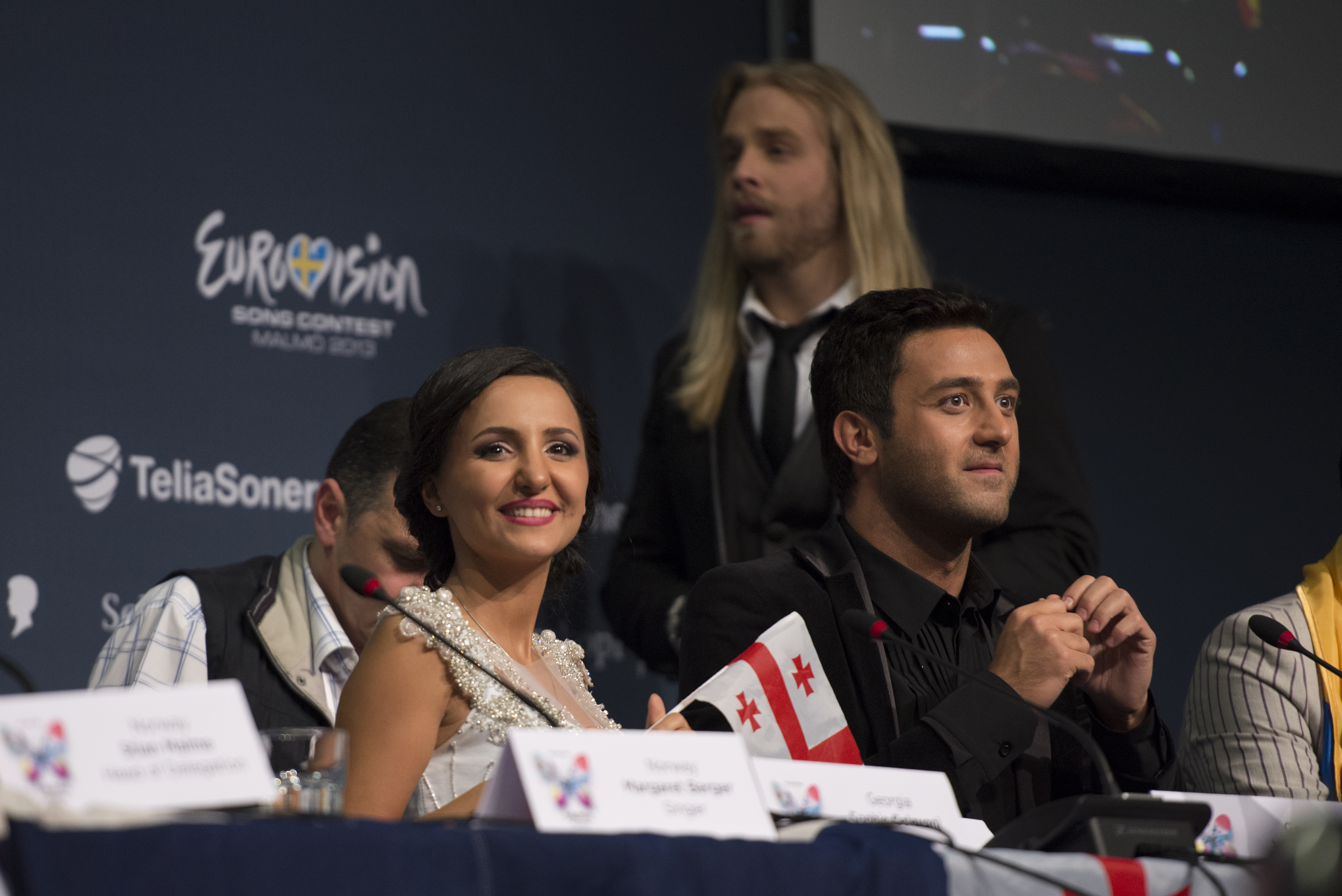 Nodiko Tatishvili and Sopho Gelovani at a press conference during the Eurovision Song Contest 2013 Malmö. (Help translate this text)